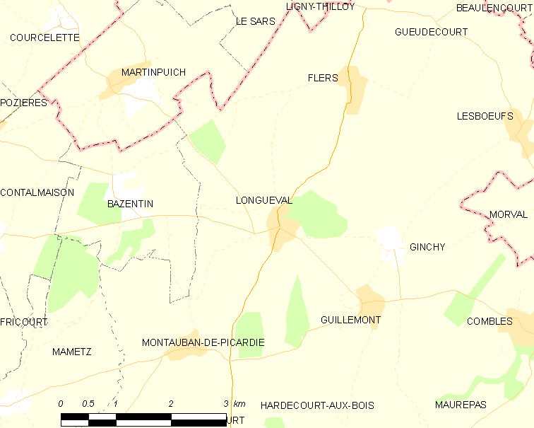 Map of French municipality Longueval